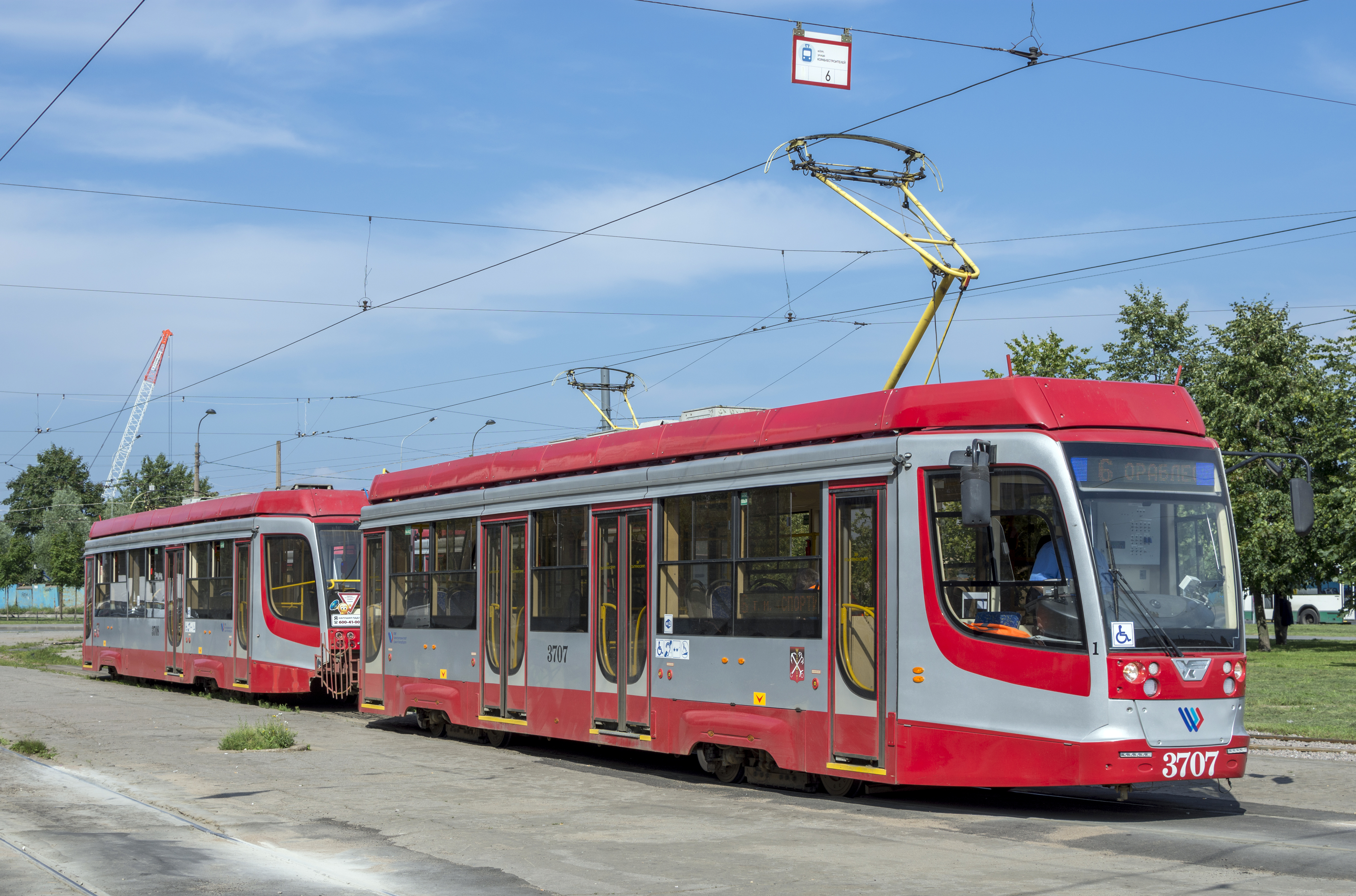 Tram 71-623-03 (MU) in Saint Petersburg